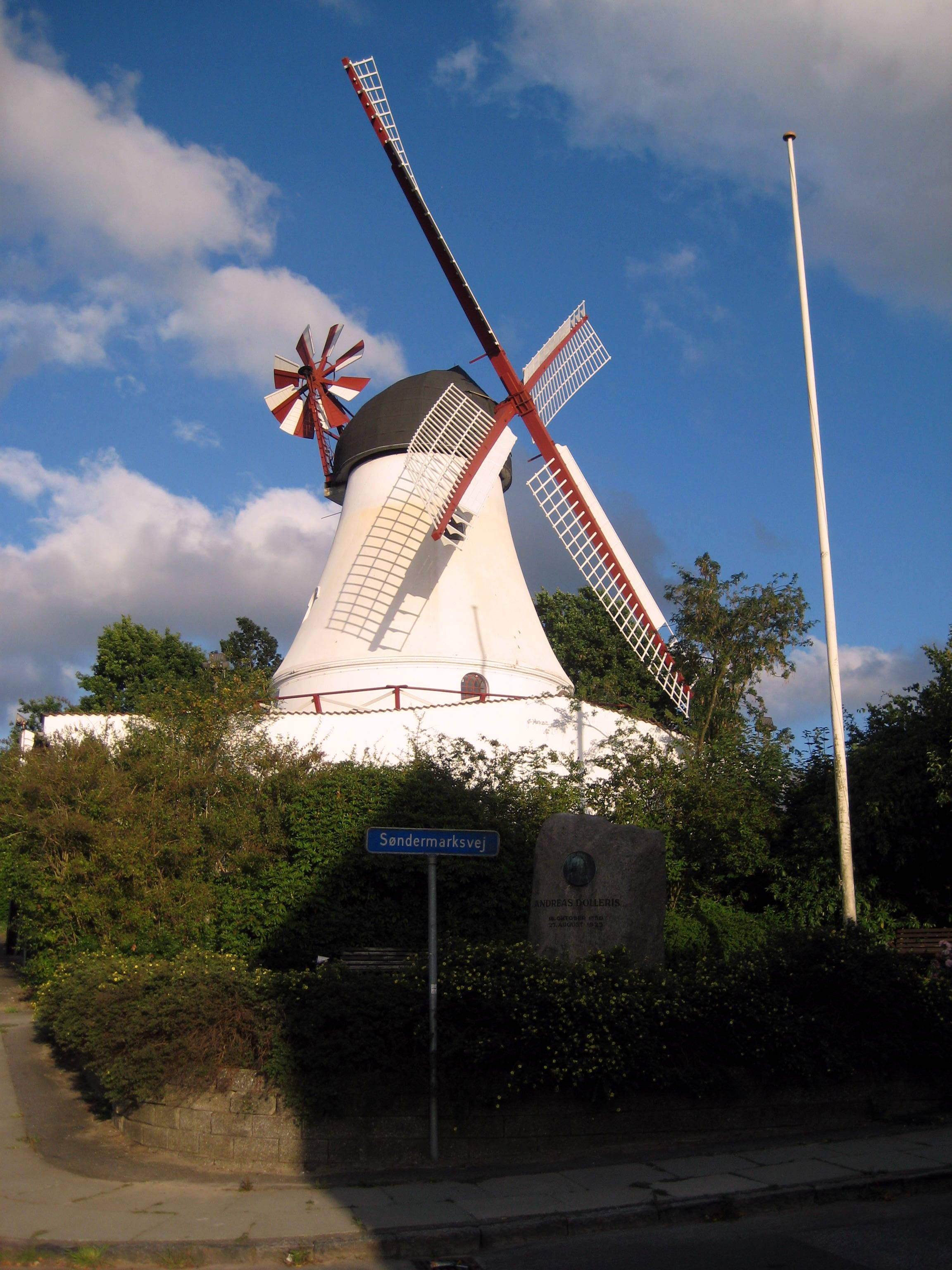 Windmill at Vejle, Denmark. Windmill built on the slopes of the hills to the south, which, visible from almost everywhere in town, is a symbol of the town.